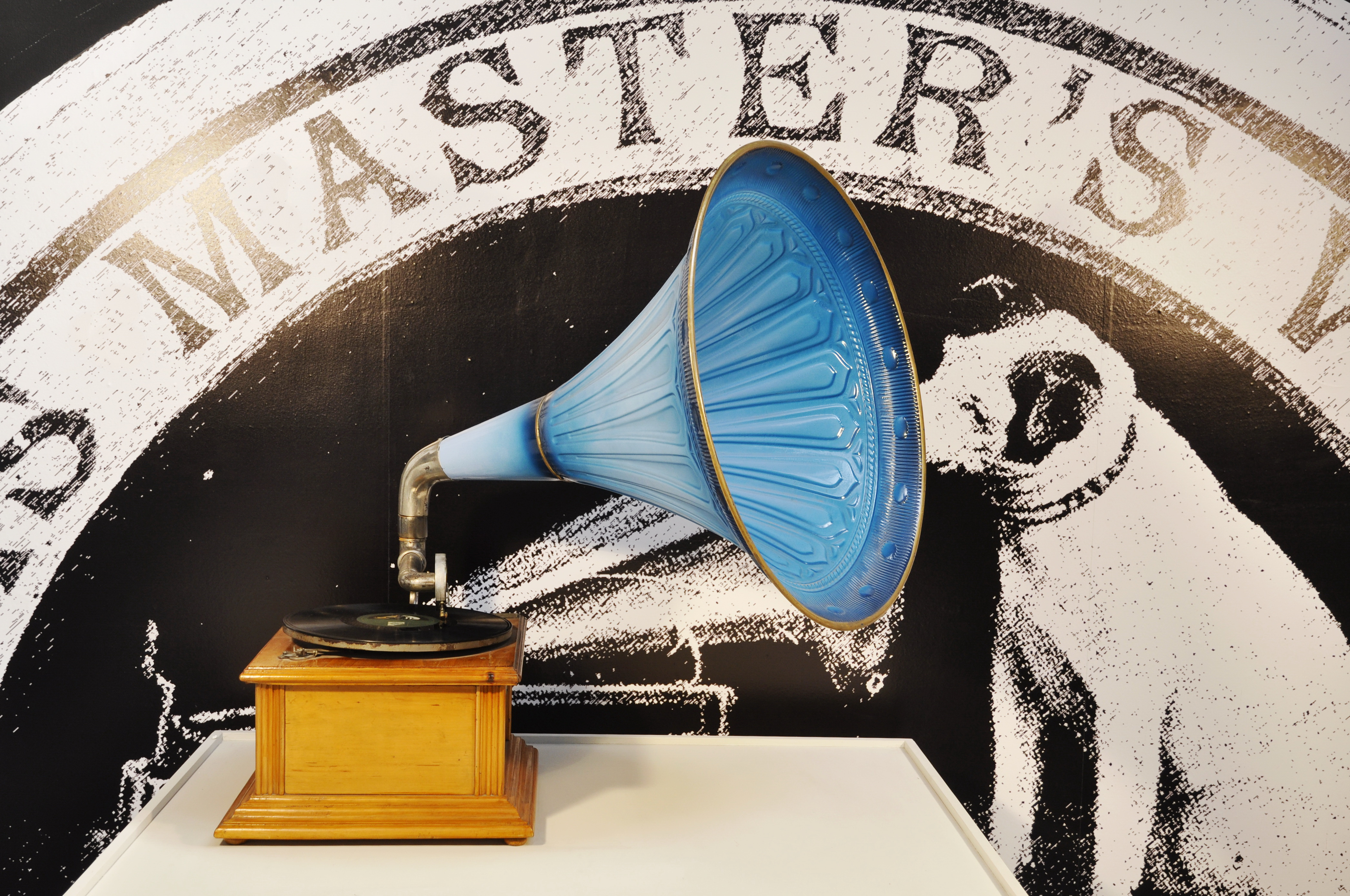 Phonograph Balog Gezaa. Now it is part of collection in Museum of Science and Technology Belgrade.